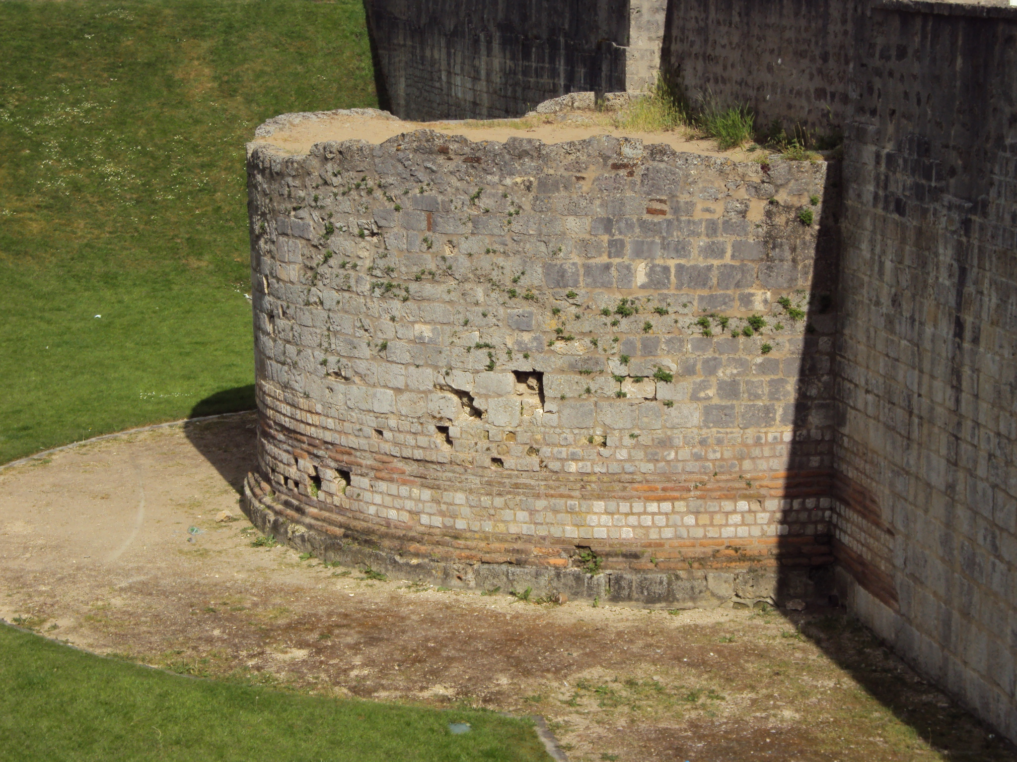 Roman wall outside the Cathédrale Ste-Croix in Orléans